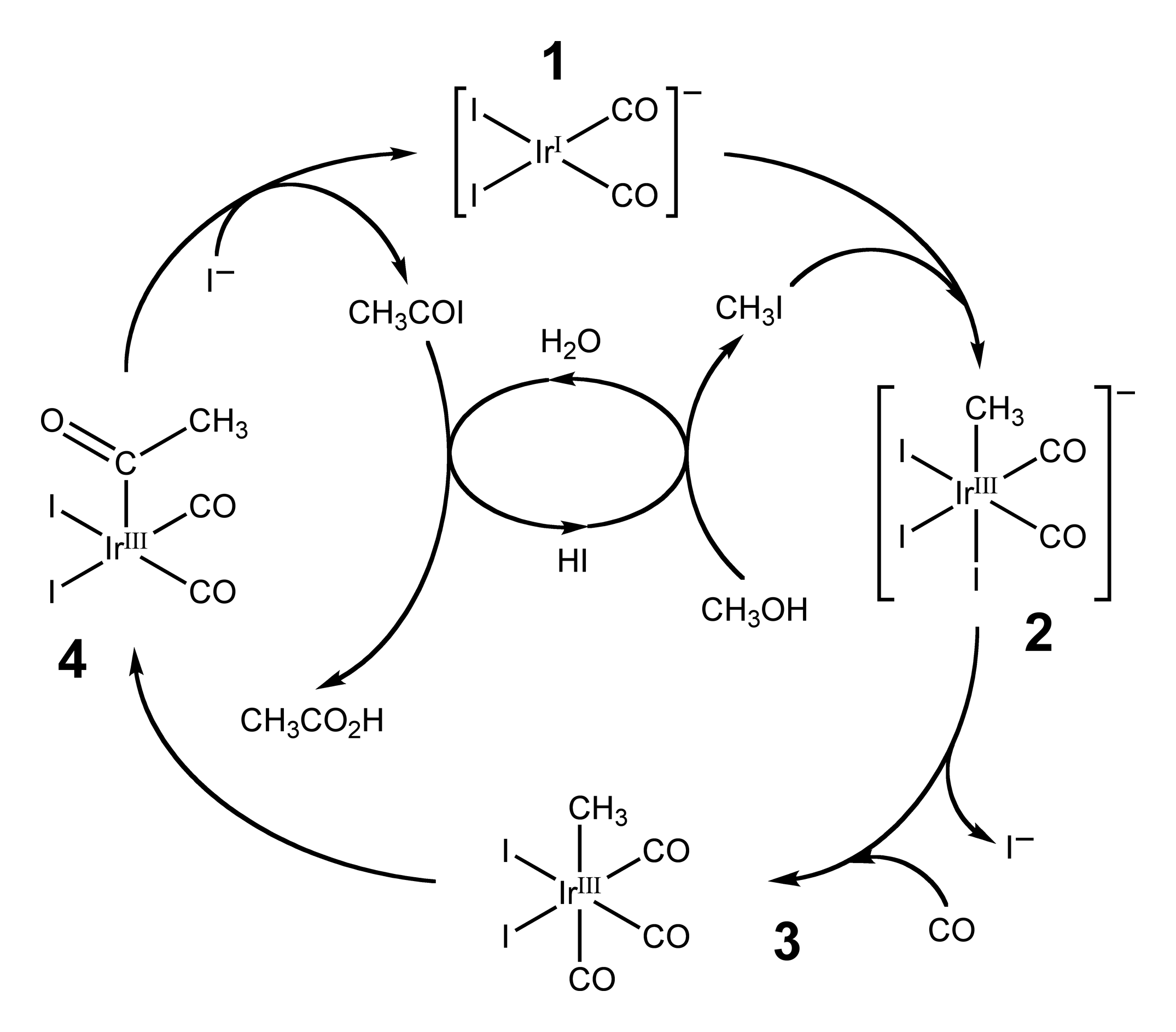 Catalytic cycle of the Cativa process for the production of acetic acid from methanol and carbon monoxide. Based on a diagram in Platinum Metals Rev. (2000) 44, 94-105.